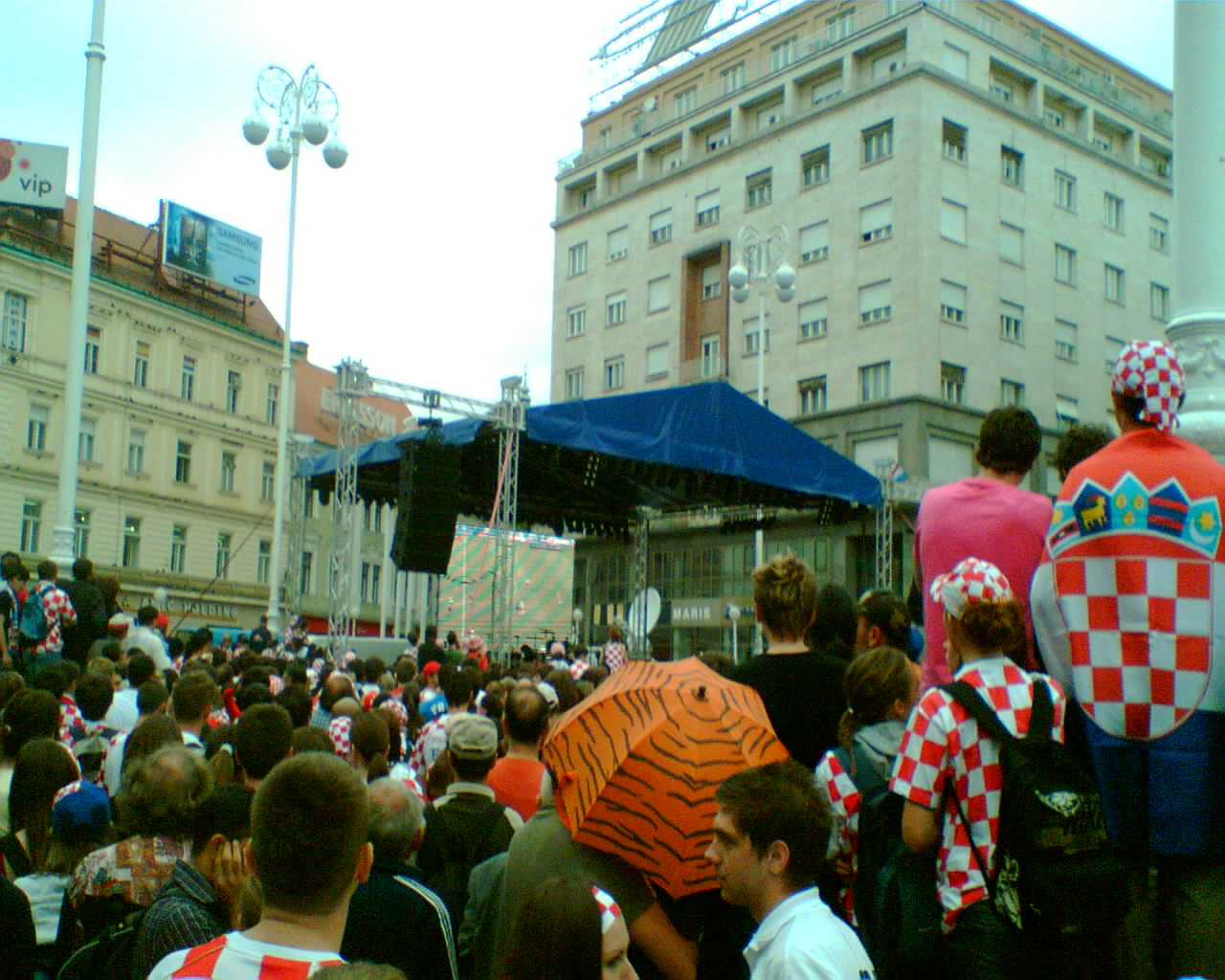 Football fans watching the Euro 2008 Croatia v Germany match, Ban Jelačić Square, Zagreb, Croatia.